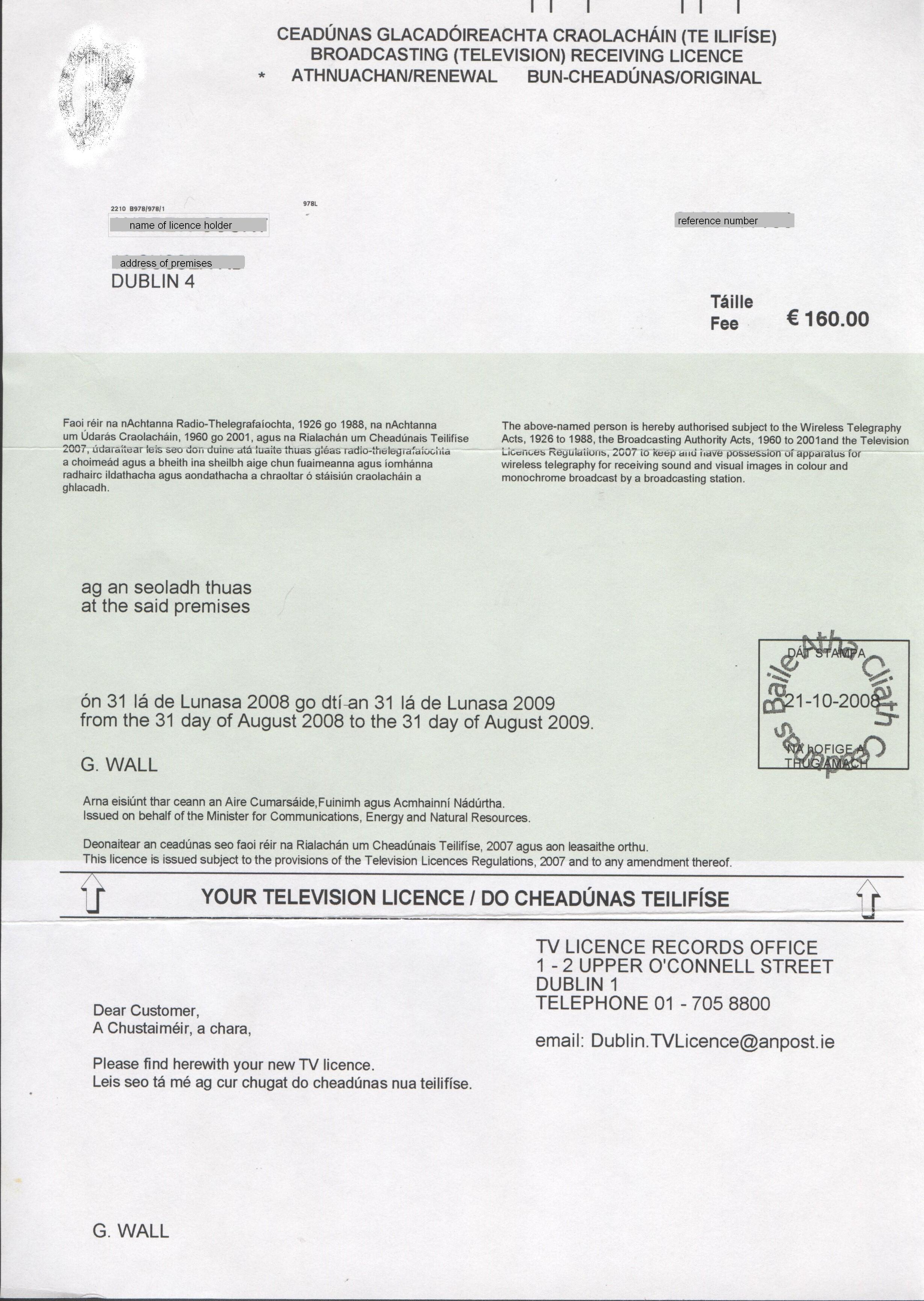 An Irish television licence from 2008. Personal details have been blanked. The asterisk to the left of "athnuachán/renewal" indicates this is the annual renewal of a licence previously issued at that name and address. The harp from the State arms has been obscured in the top left corner, as this is subject to copyright and other usage restrictions.